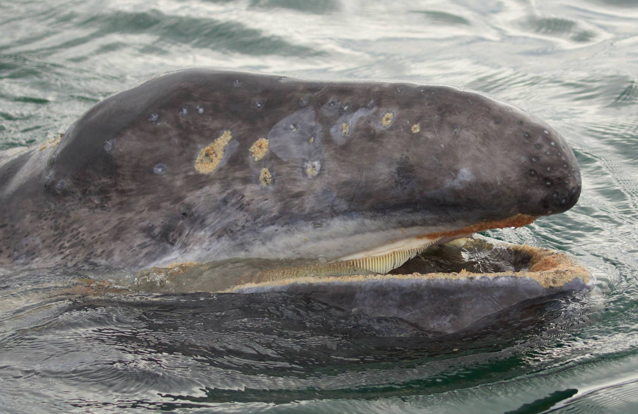 Gray whale calf by Marc Webber/USFWS